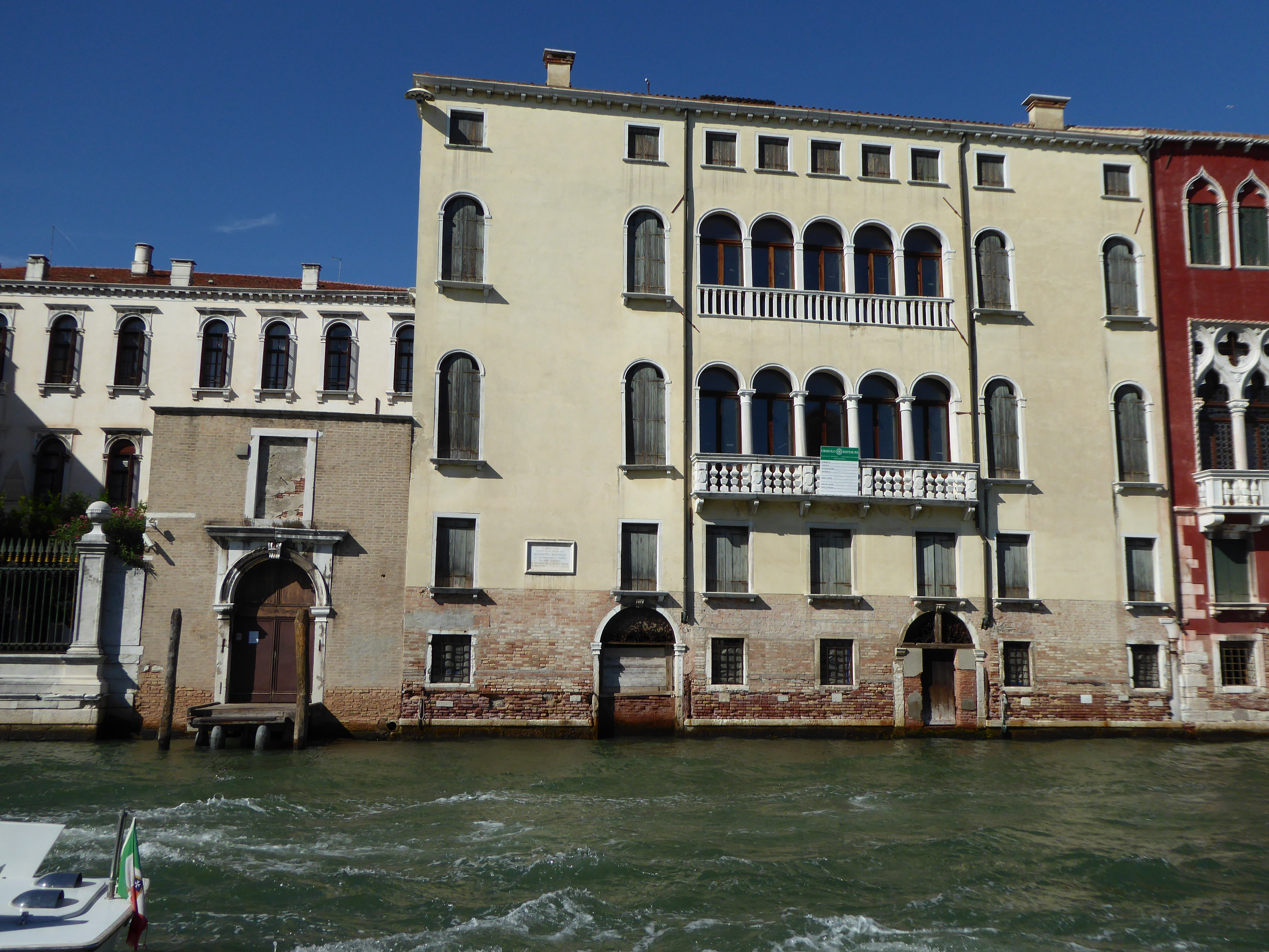 palaces of canal grande